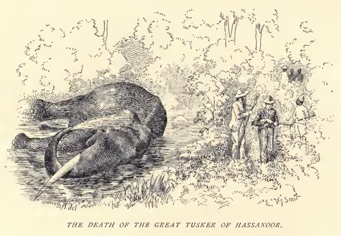 Douglas Hamilton, Death of the Great Tusker. Note Douglas Hamilton with dark beard cleaning his rifle.